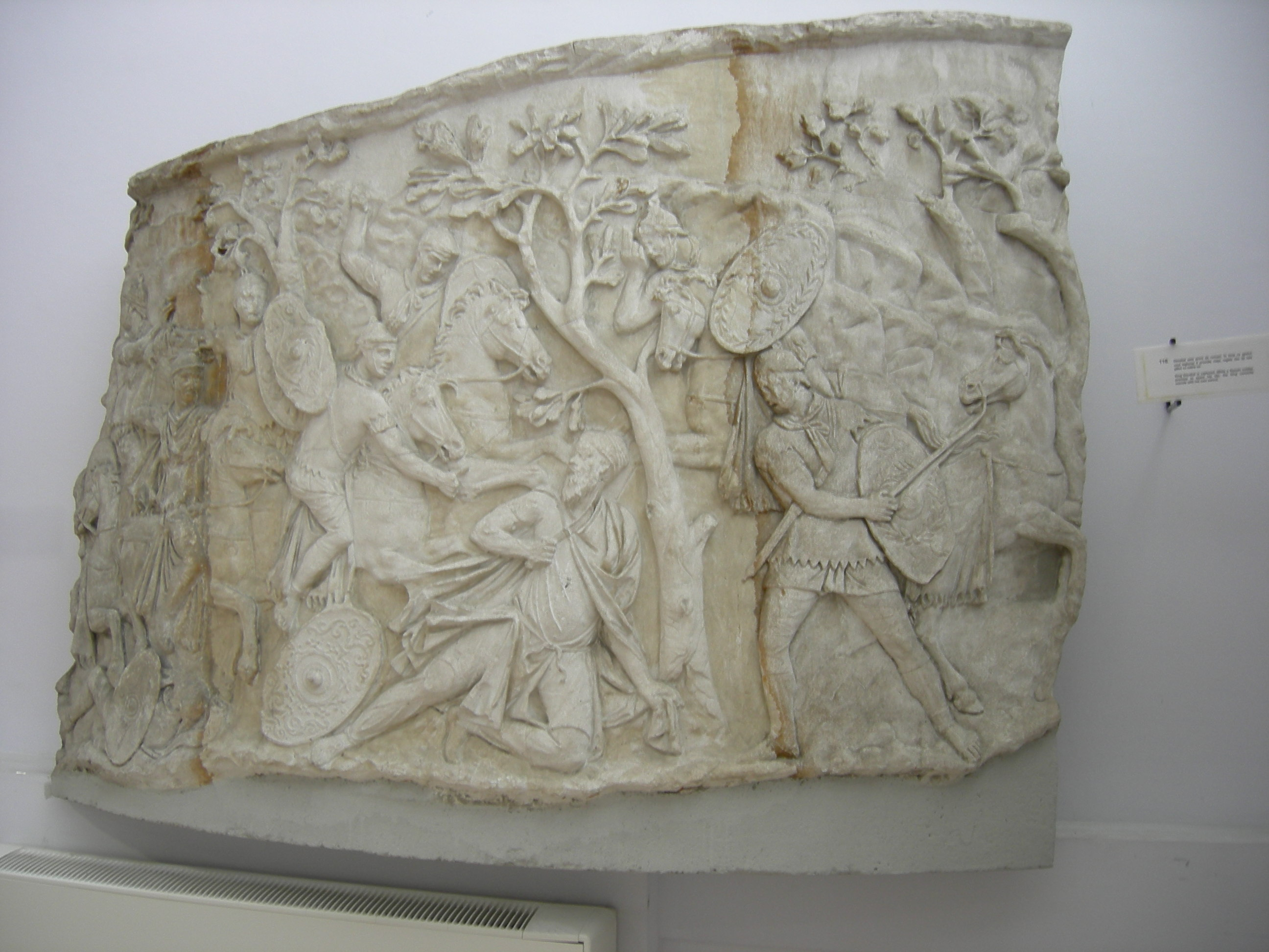 Suicide of Decebalus (who killed himself rather than be captured). From Trajan's Column; this is from the plaster-cast reproduction at the Museum of Romanian History in Bucharest, Romania